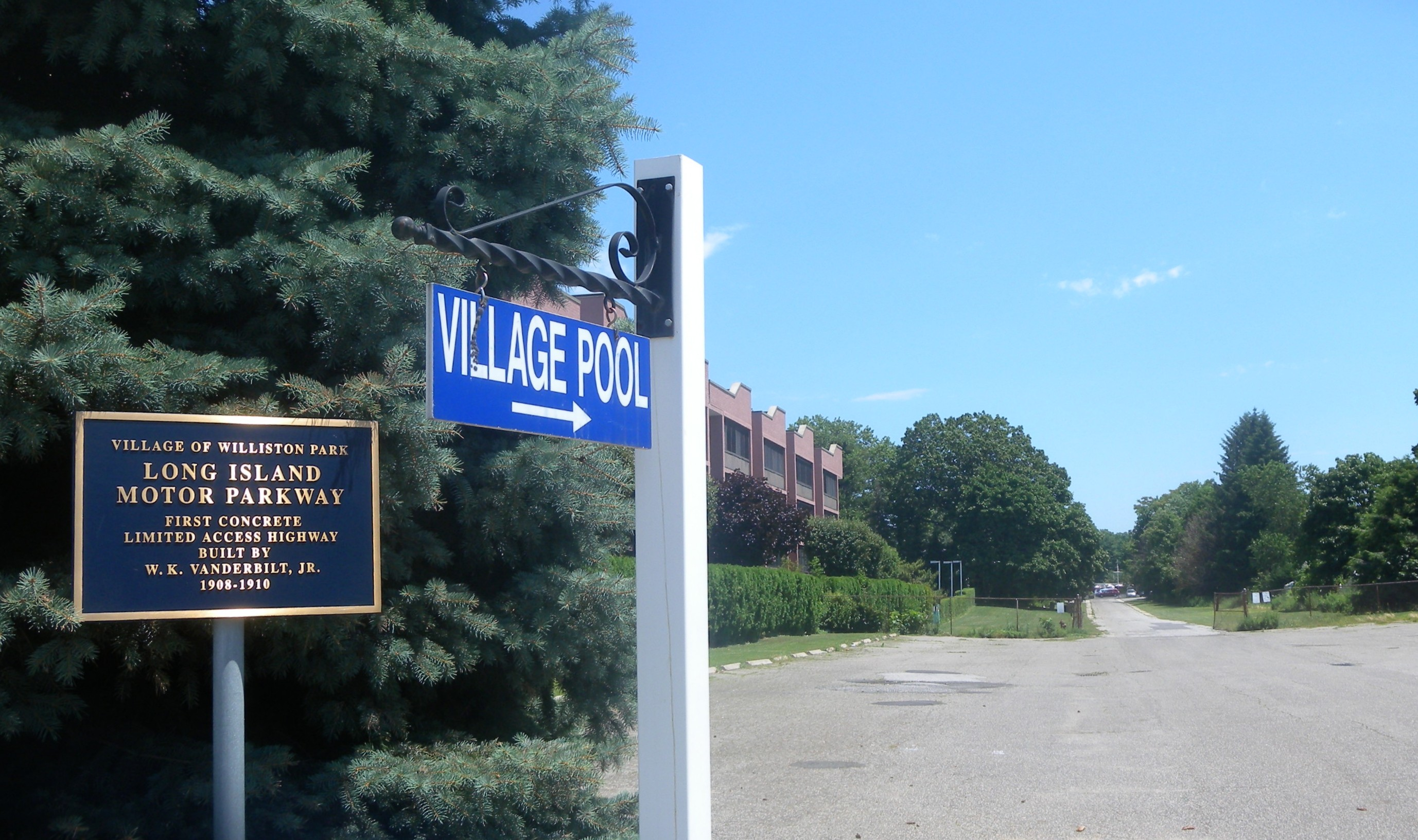 Looking east along fomer Parkway on a sunny midday.